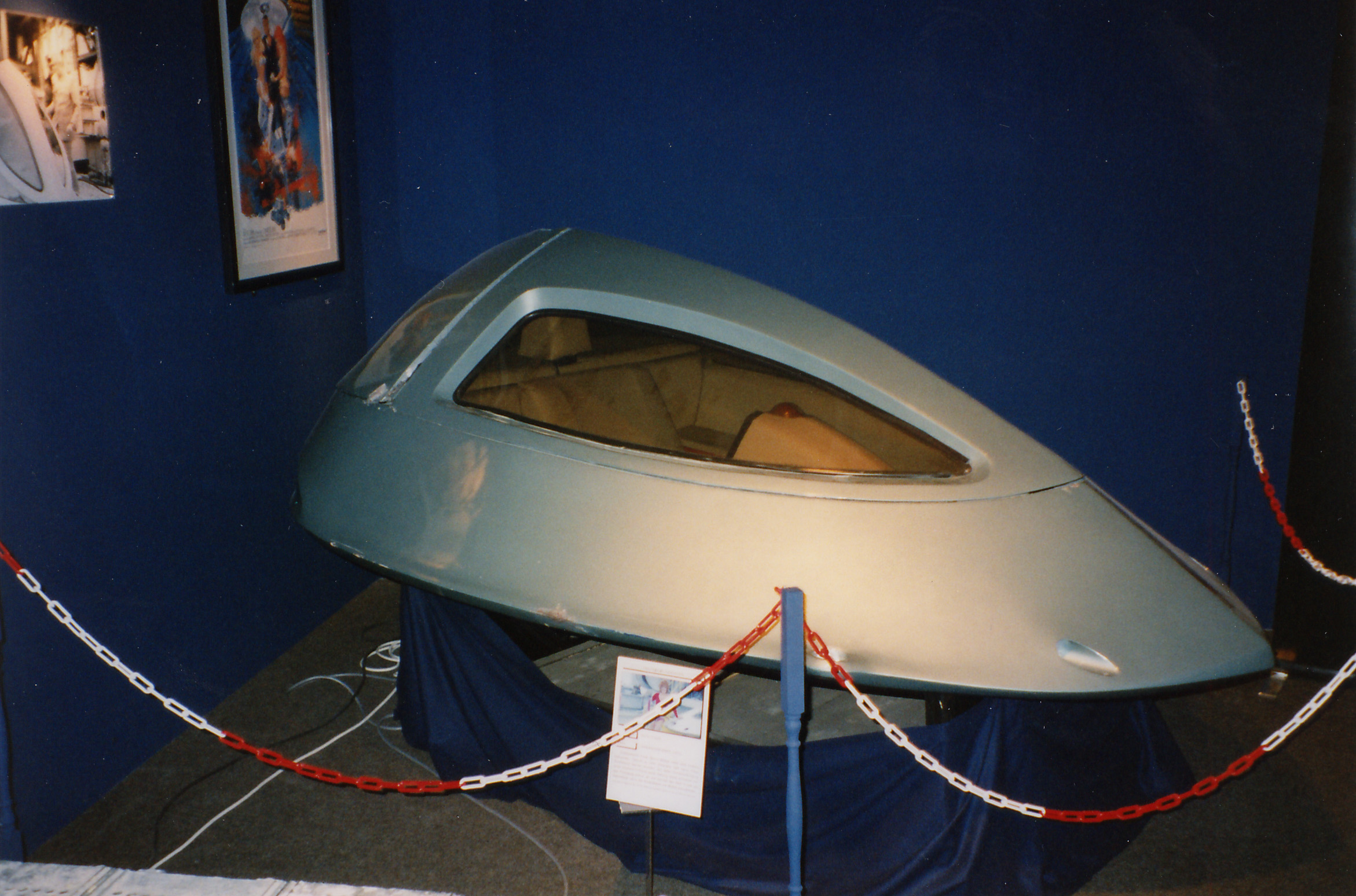 Bath-o-sub from James Bond Movie Diamonds Are Forever (1971) at a 1998 exhibition.